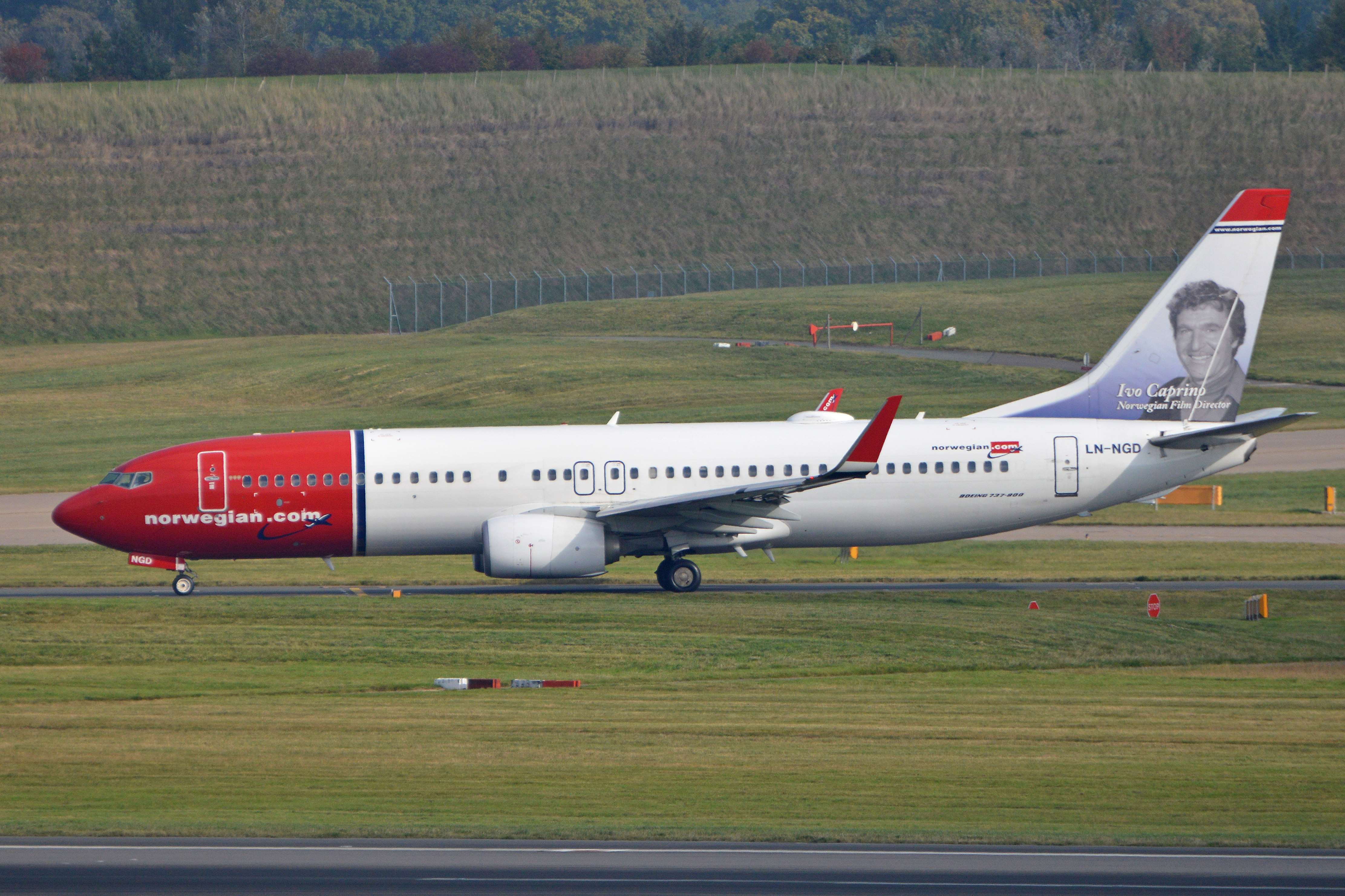 c/n 39049, l/n 4161. Built 2012. Departing on flight DY5127 to Madrid. Birmingham International Airport, UK. 11-10-2015